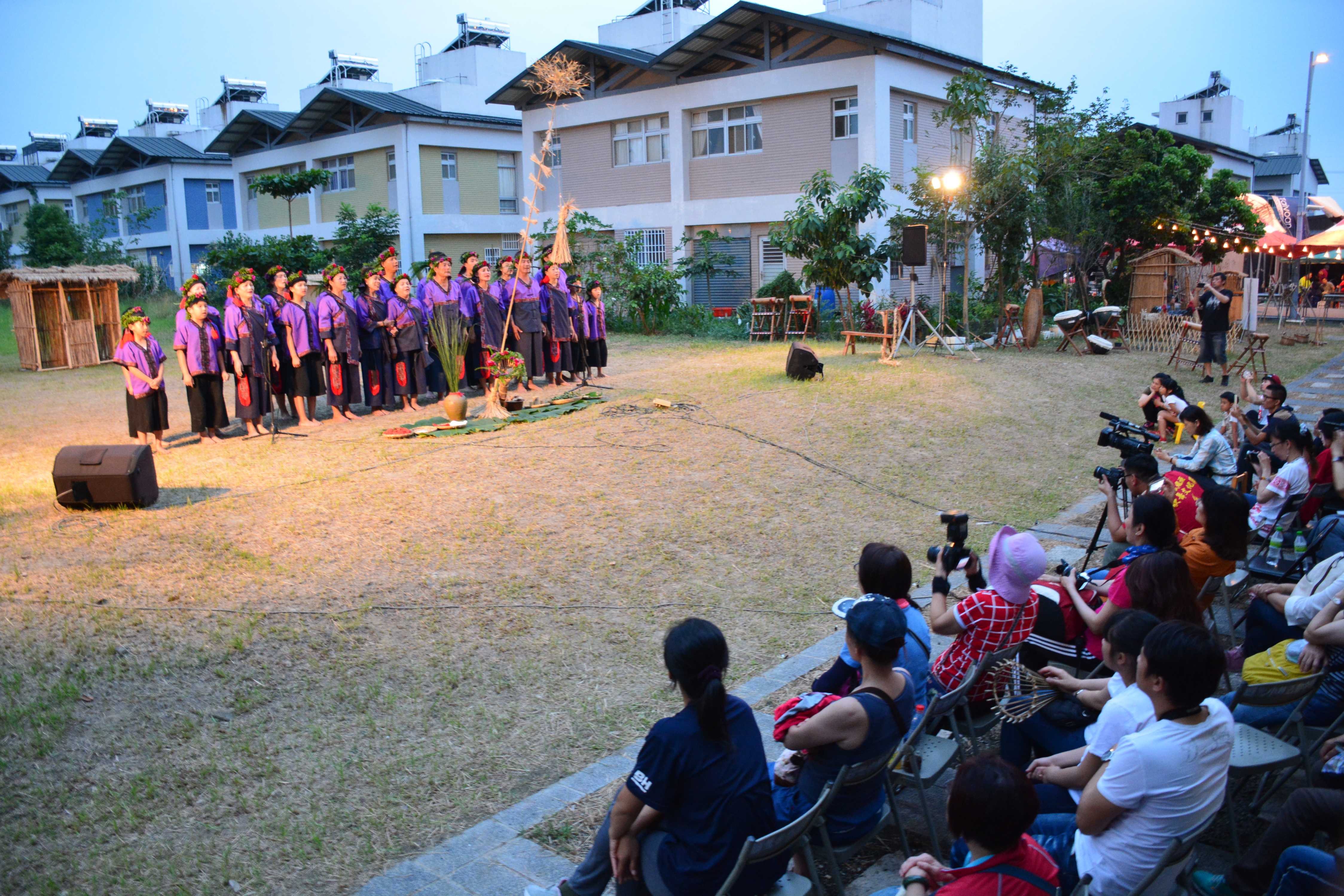 Taivoan Music and Cultural Festival held on 30th Apr 2018.